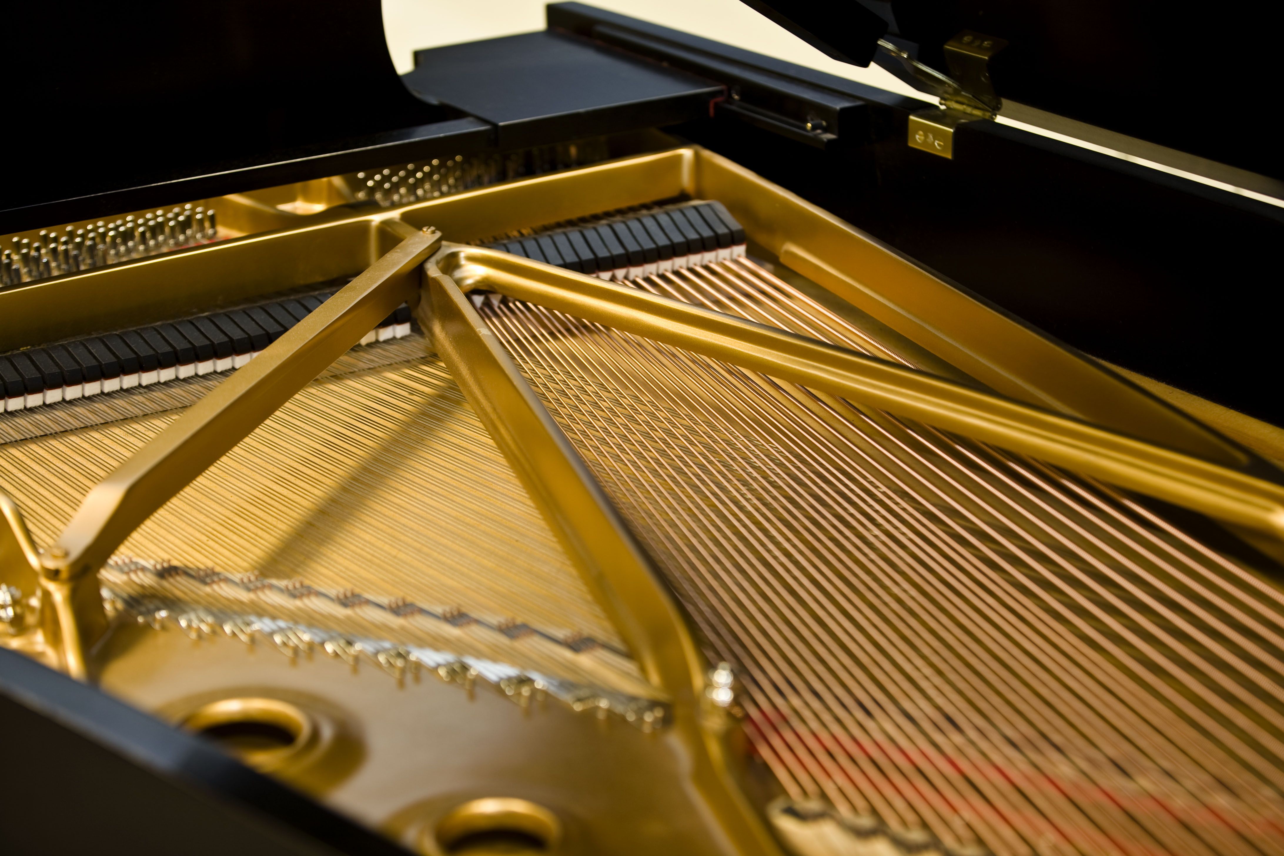 Steinway & Sons Grand Piano Iron Plates and Strings